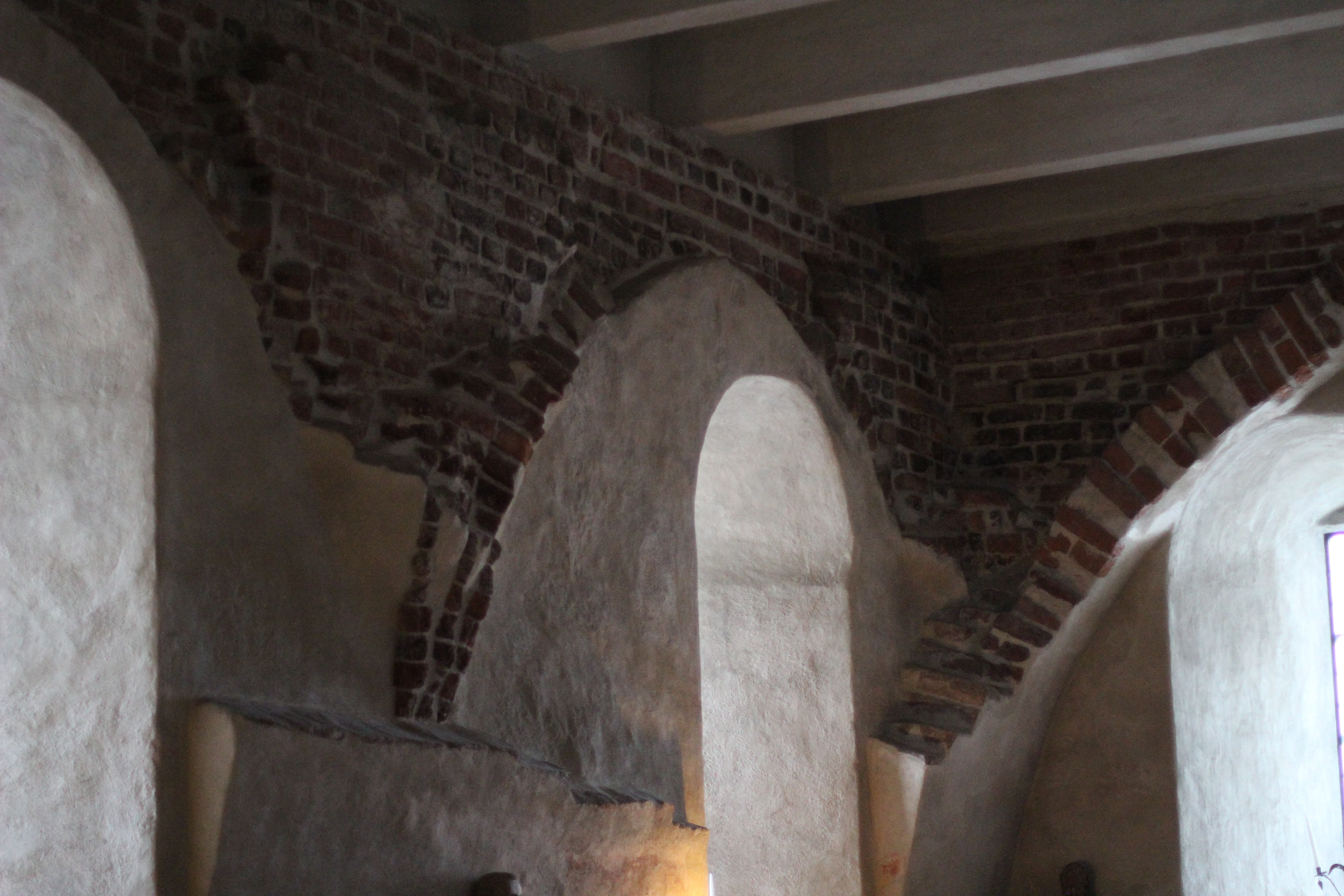 Sture church, Turku castle, Turku, Finland. - Altar wall, left corner. Remains of barrel vault, above it of groin vauls and present floor.